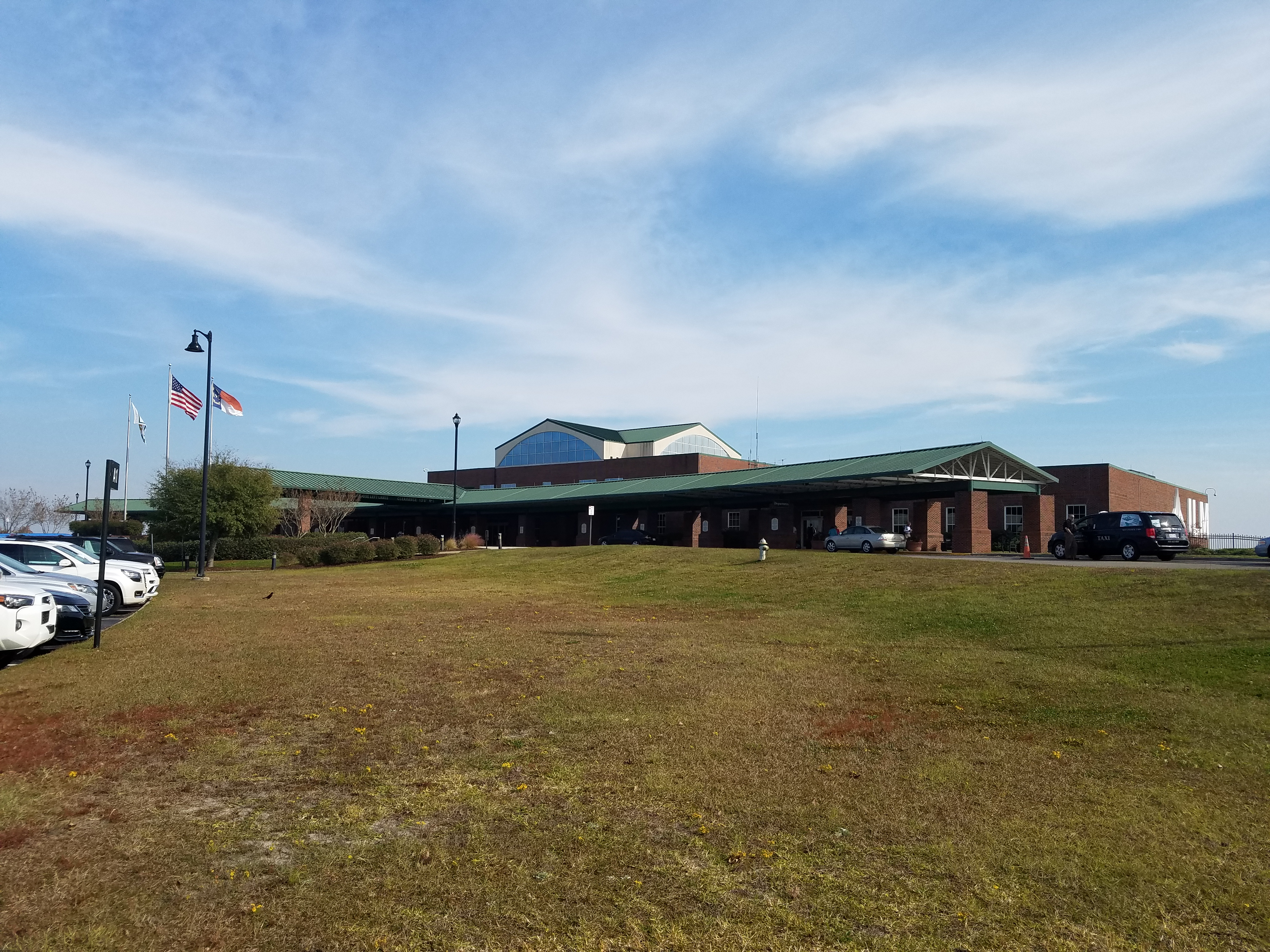 Main terminal of Wilmington International Airport (ILM) in Wilmington, North Carolina.